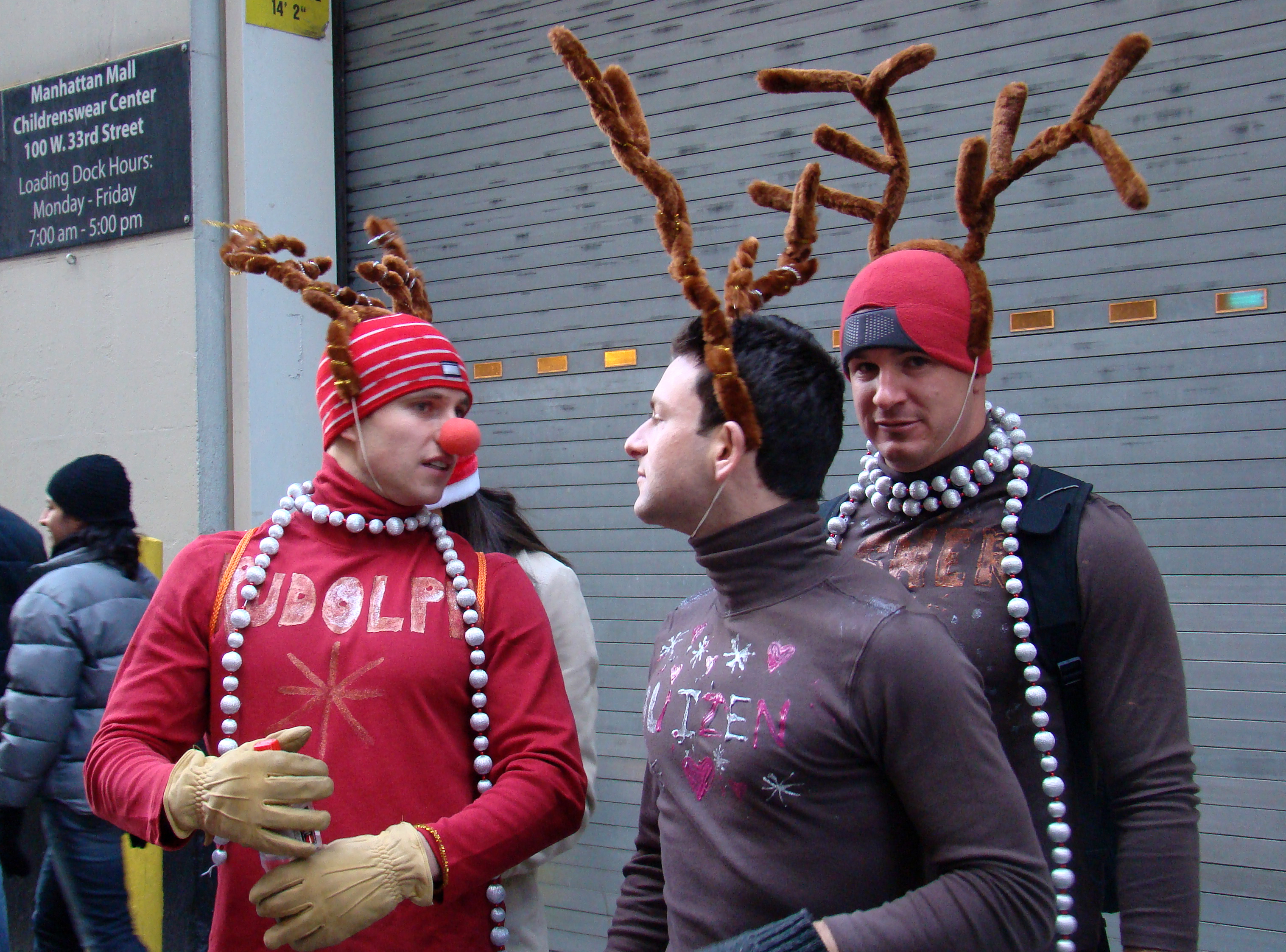 Taken at New York Santacon 2008. If this picture is of you, leave a comment and let me know.